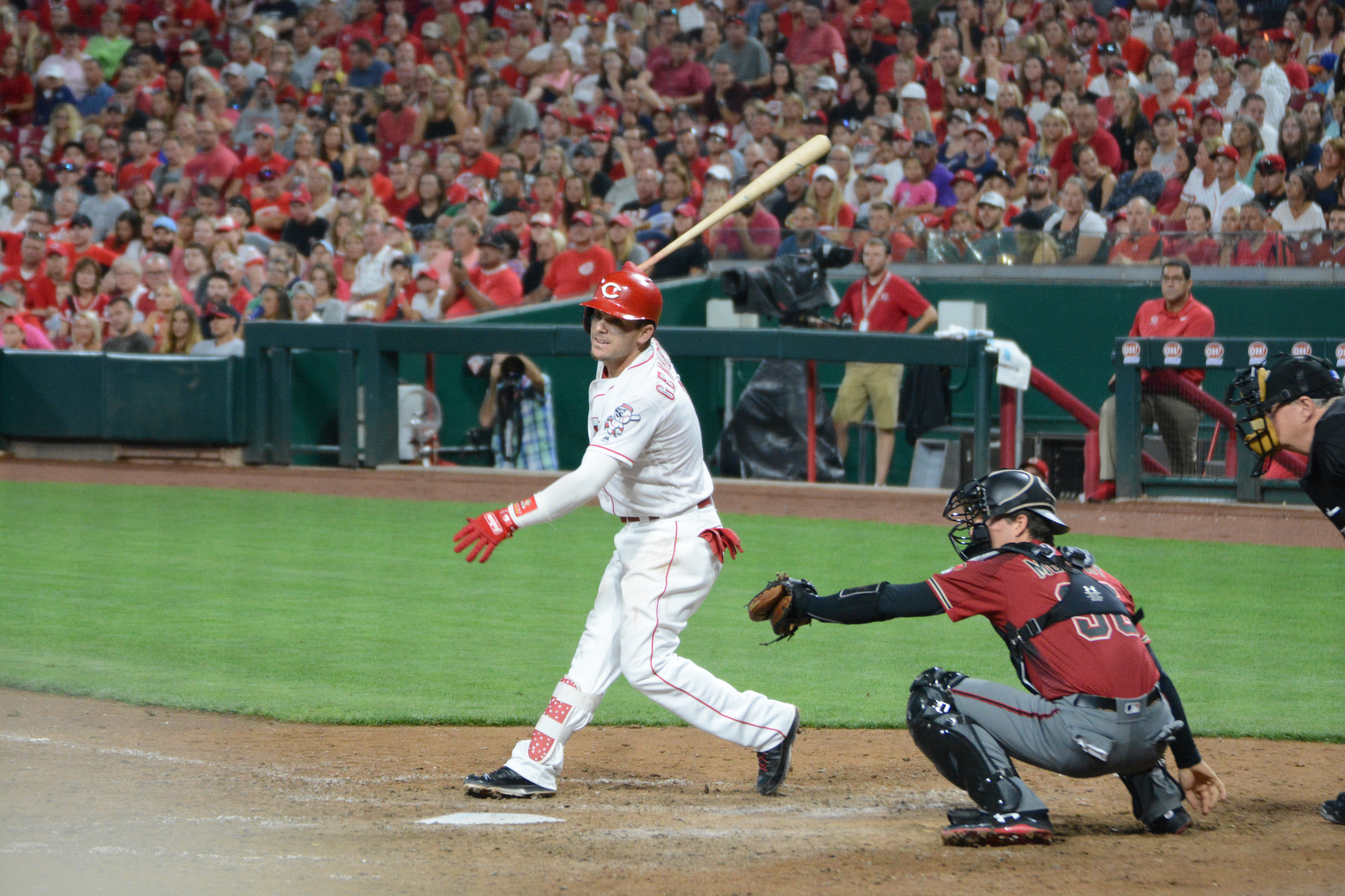 Taken at a baseball game between the Cincinnati Reds and the Arizona Diamondbacks on August 11, 2018 at Great American Ball Park in Cincinnati, Ohio.